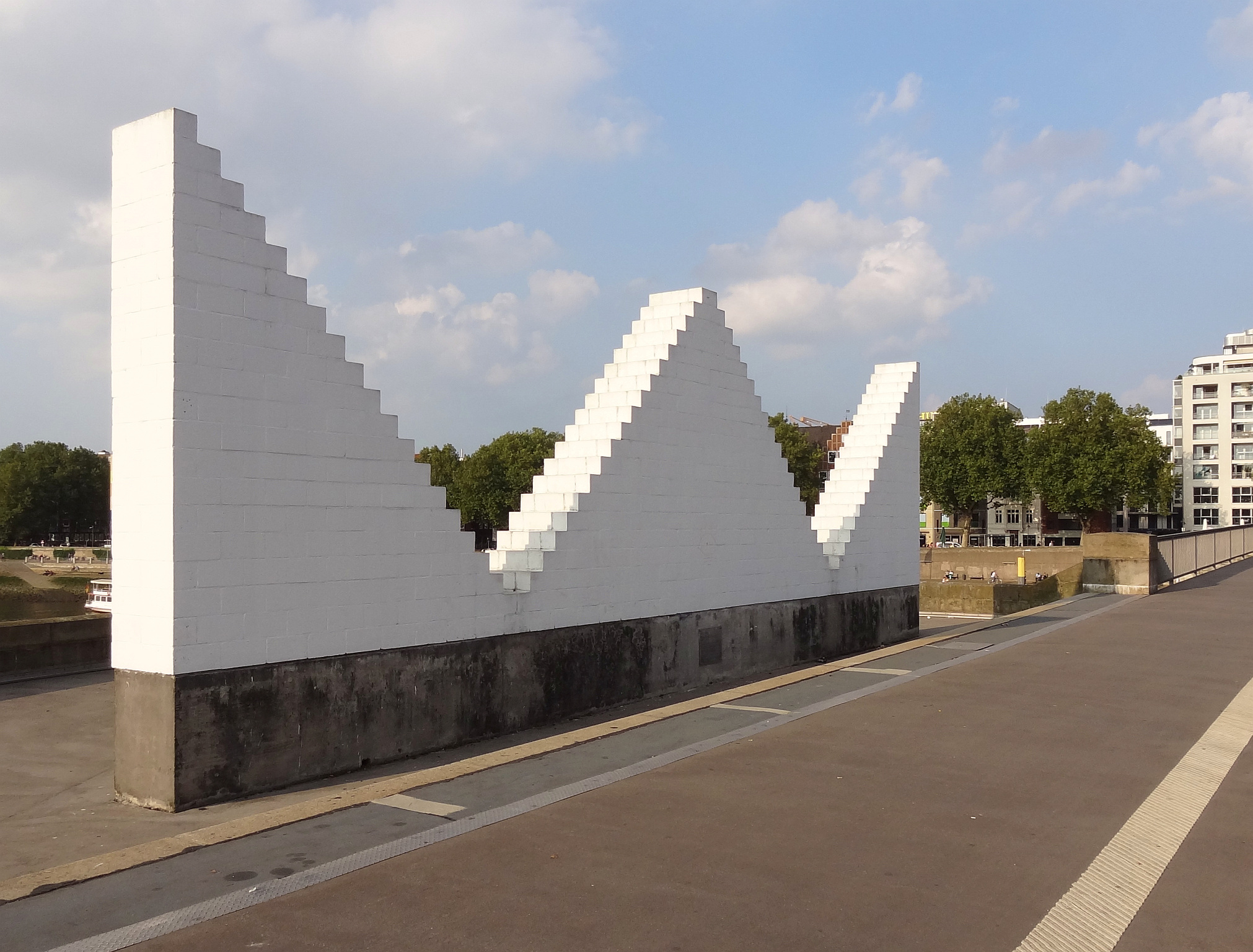 Three Triangles by Sol LeWitt 1994